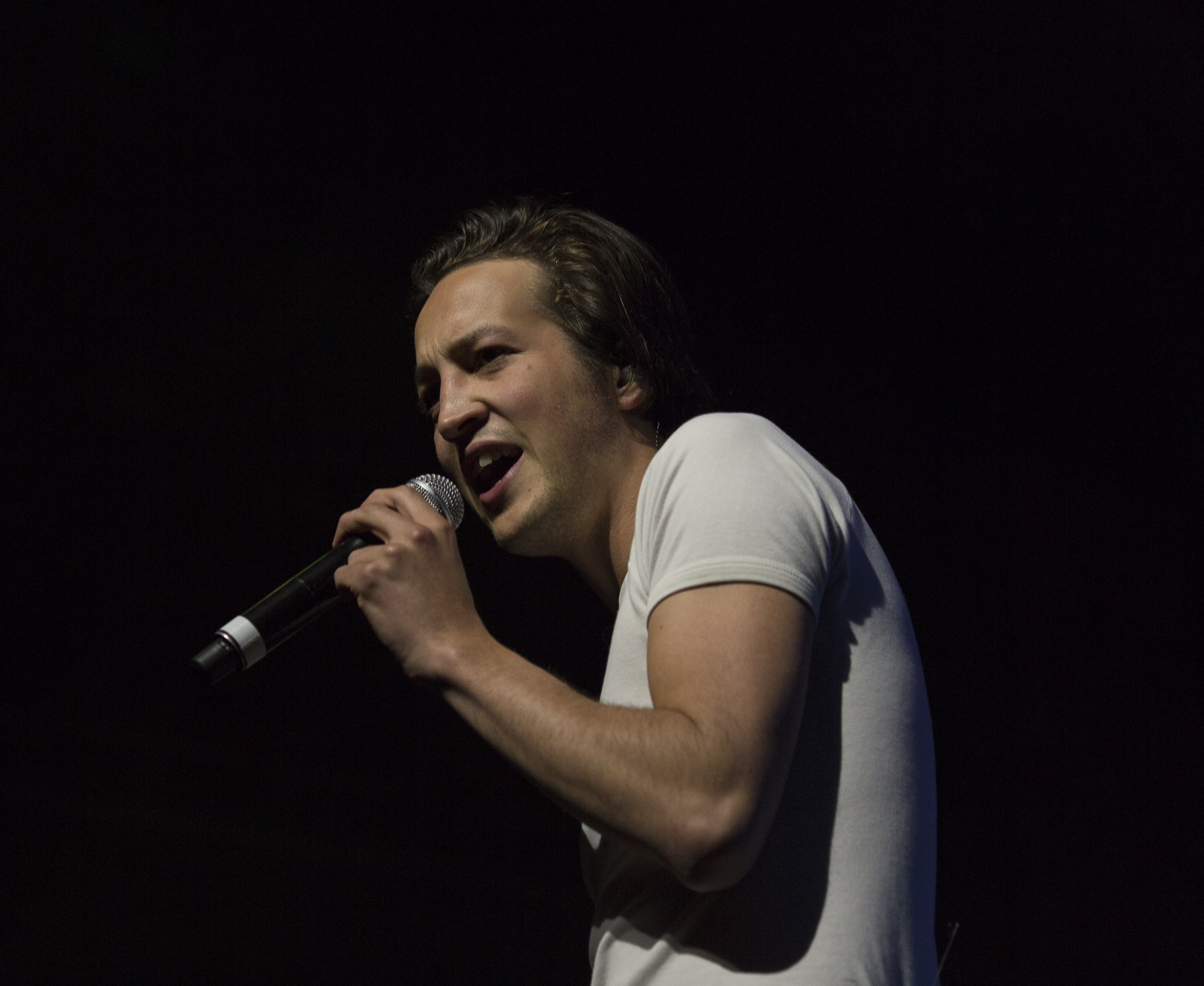 Rubber Soul Revolver - Sydney Opera House - 7th August 2015